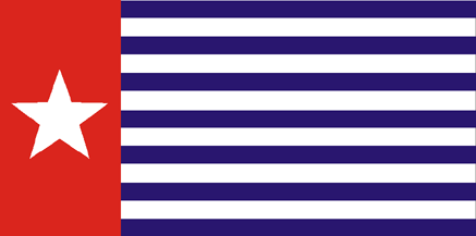 Organisesi Papua Merdeka